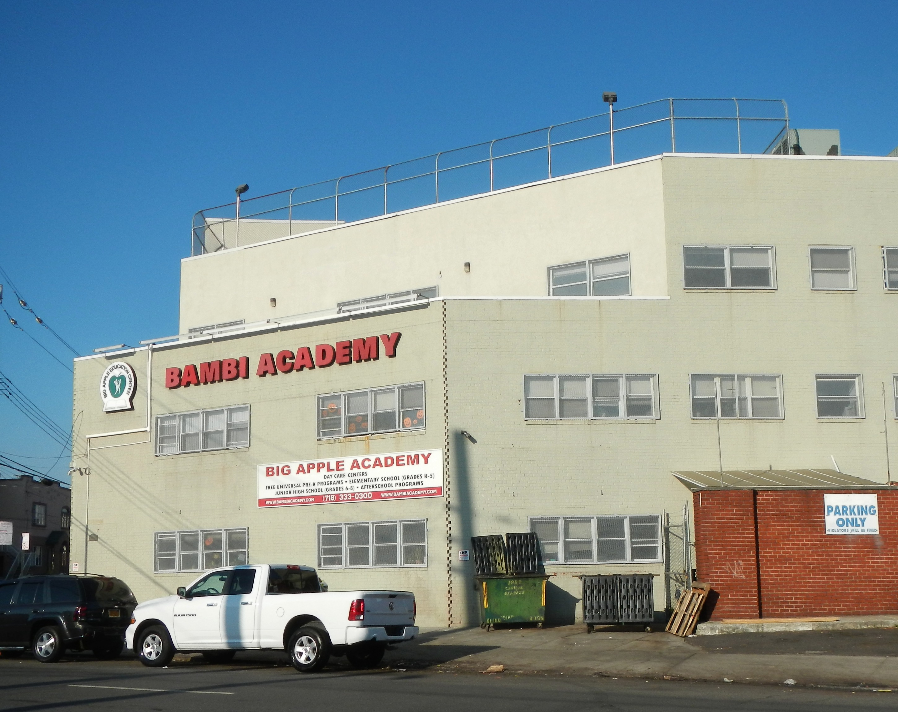 Looking north across 86th Street at Bambi Academy on a sunny afternoon.